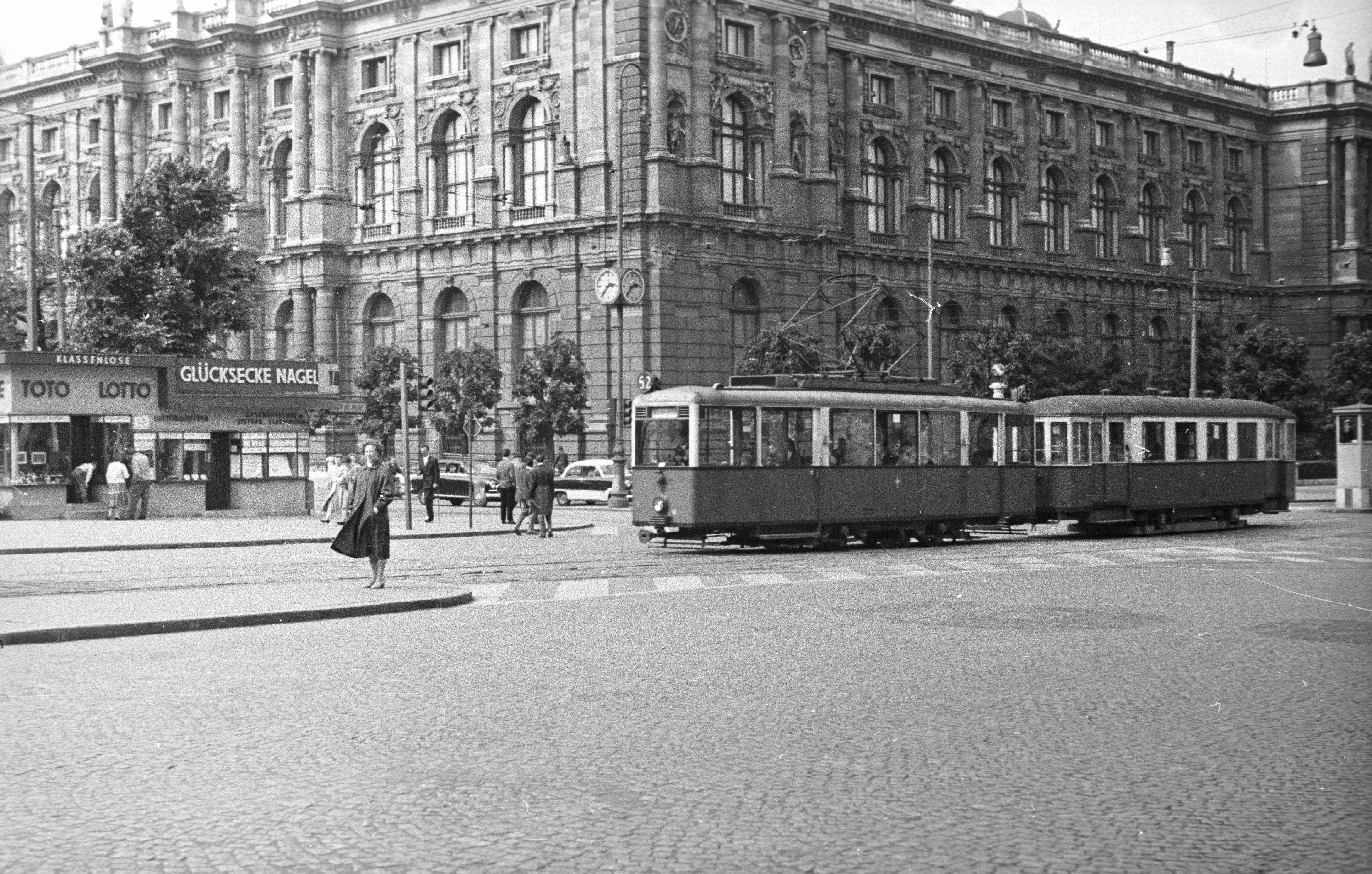 Museumsplatz and Babenbergerstrasse crossing, with Kunsthistorisches Museum (Museum of Fine Arts) in the background; view from Mariahilfer Strasse